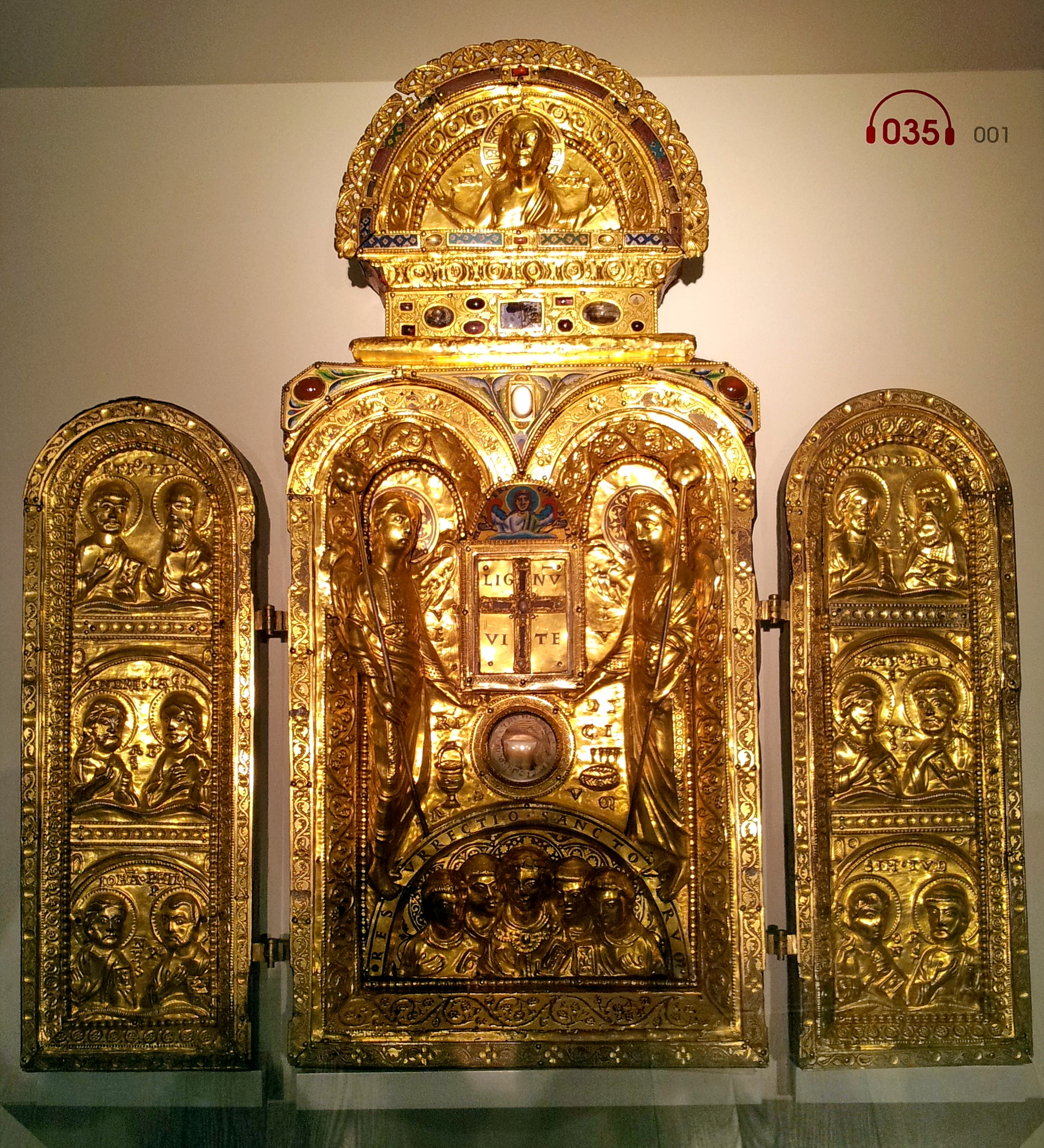 Reliquary tablets in the shape of a portable altar (Liège or mosan, 1160-'70, gilded copper on wood with champlevé enamel), formerly in the church of Sainte-Croix, now in Museum Grand Curtius, Liège